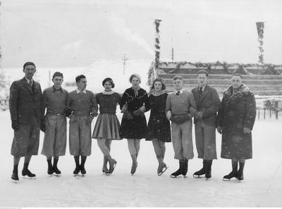 From left: 3 - Erwin Kalus, 4 - Stefania Kalus, 5 - Elżbieta Czor, 6 - Barbara Chachlewska